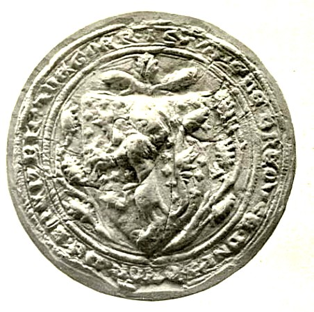 Seal of William de Braose, 2nd Baron Braose, appended to the Barons' Letter to the Pope of 1301, showing arms of braose on an escutcheon: Azure semy of cross-crosslets or, a lion rampant of the last crowned and langued gules. Also blazoned on the Falkirk Roll of Arms, 1298